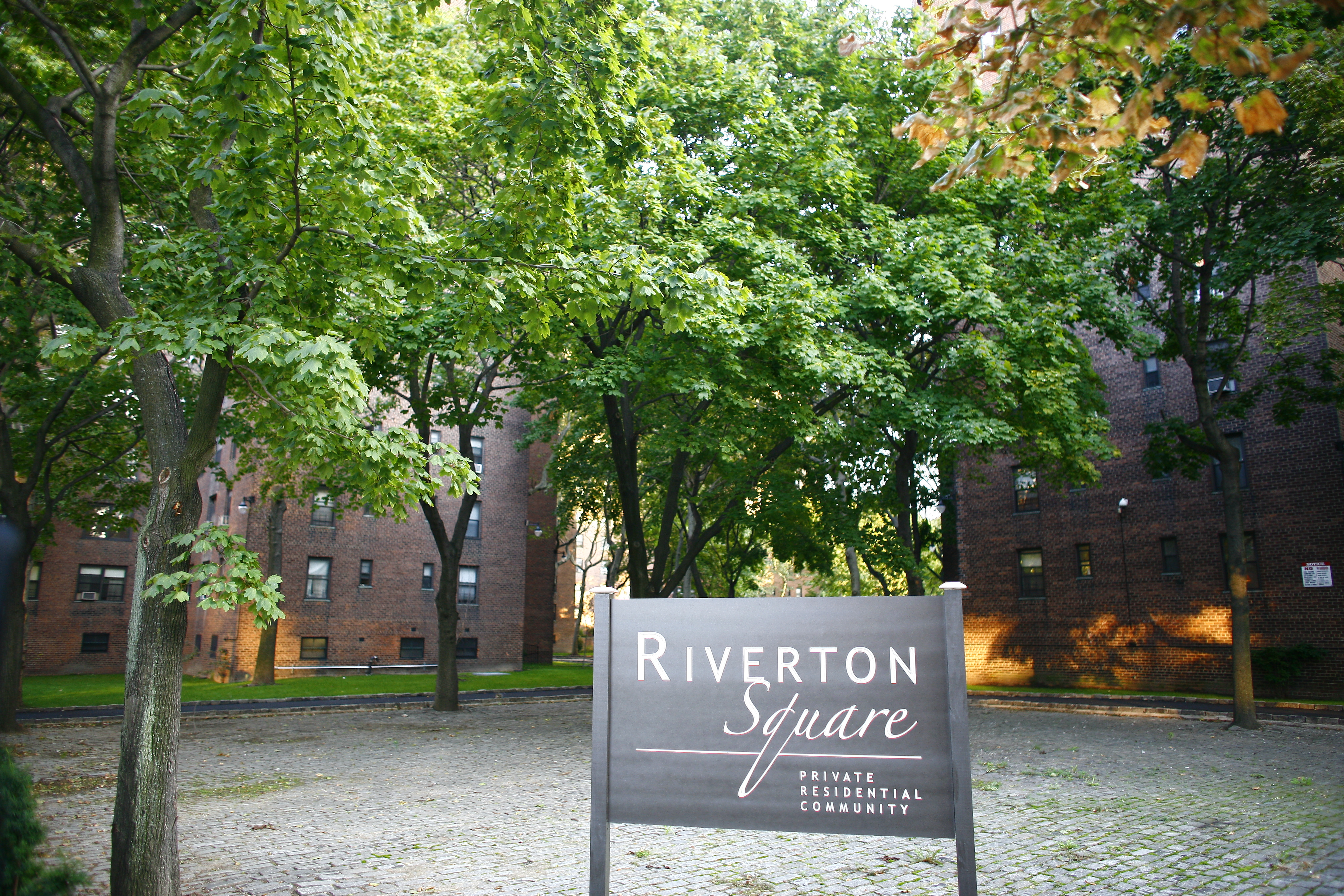 This photo is of Wikis Take Manhattan goal code B6, Riverton Houses.